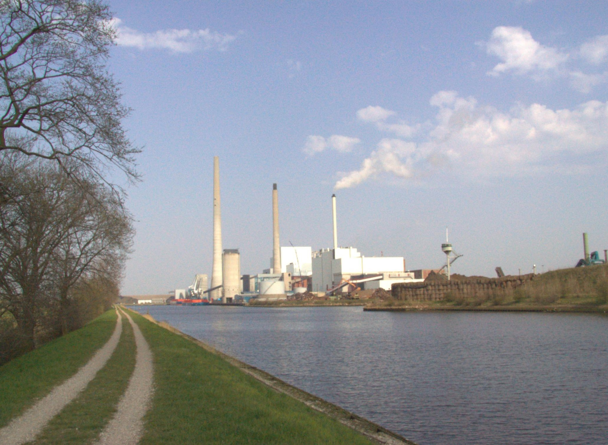 Odense Canal and the CHP-plant "Fynsværket"